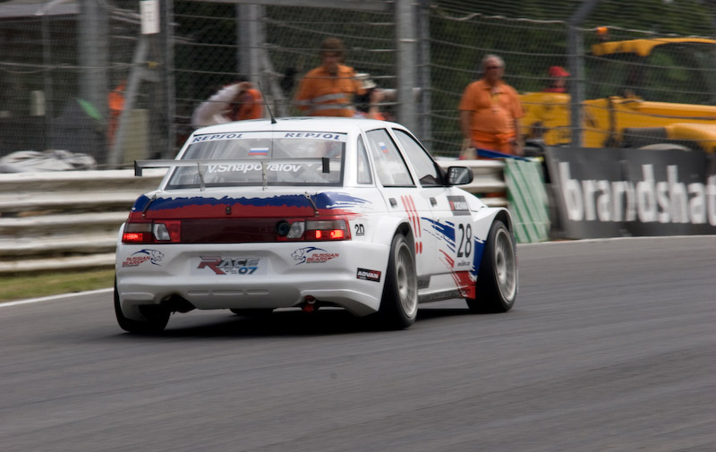 Viktor Shapovalov (Russian Bears Motorsport) at the 2008 WTCC Brands Hatch race.